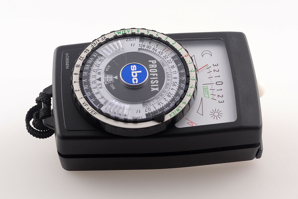 Gossen profisix Light meter.